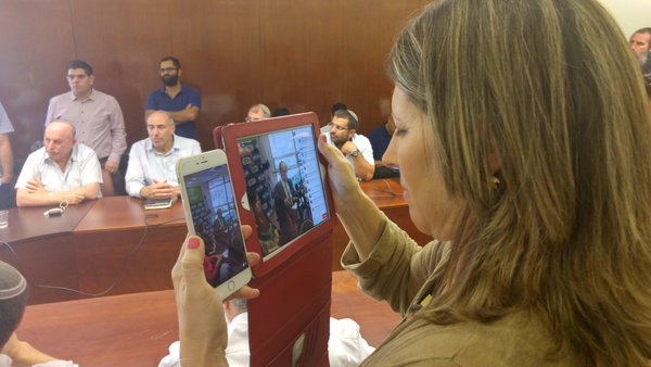 Tal Schneider broadcasting a news conference via Twitter